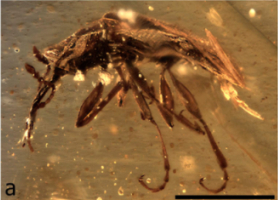 Guillermorhinus longitarsis sp. n., holotype. Habitus, left lateral (a) Scale bar: 1.0 mm